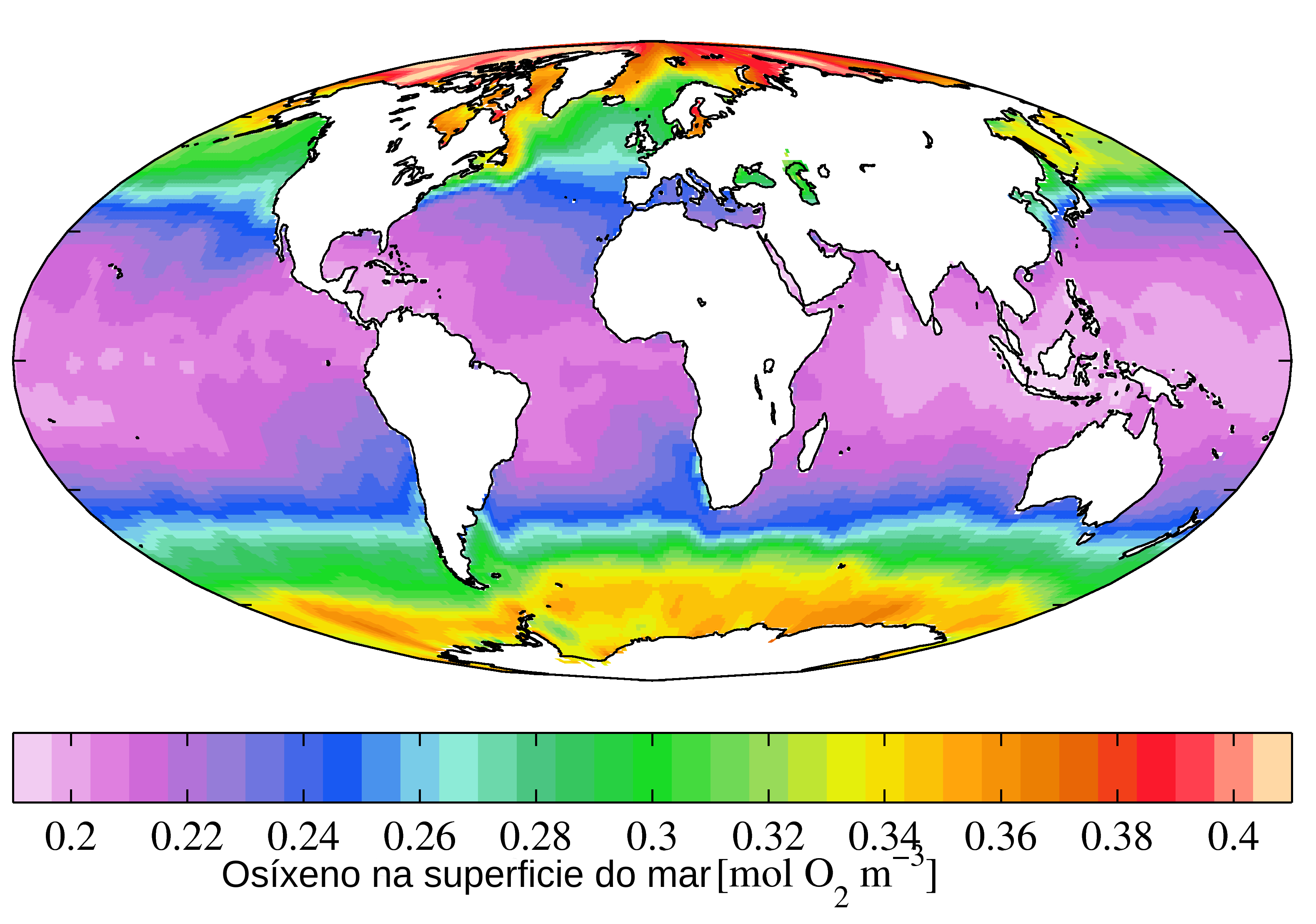 sea surface dissolved oxygen